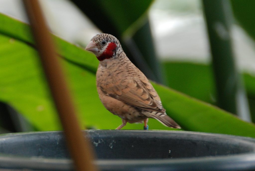 A male Cut-throat Finch at Oregon Zoo, Oregon, USA.